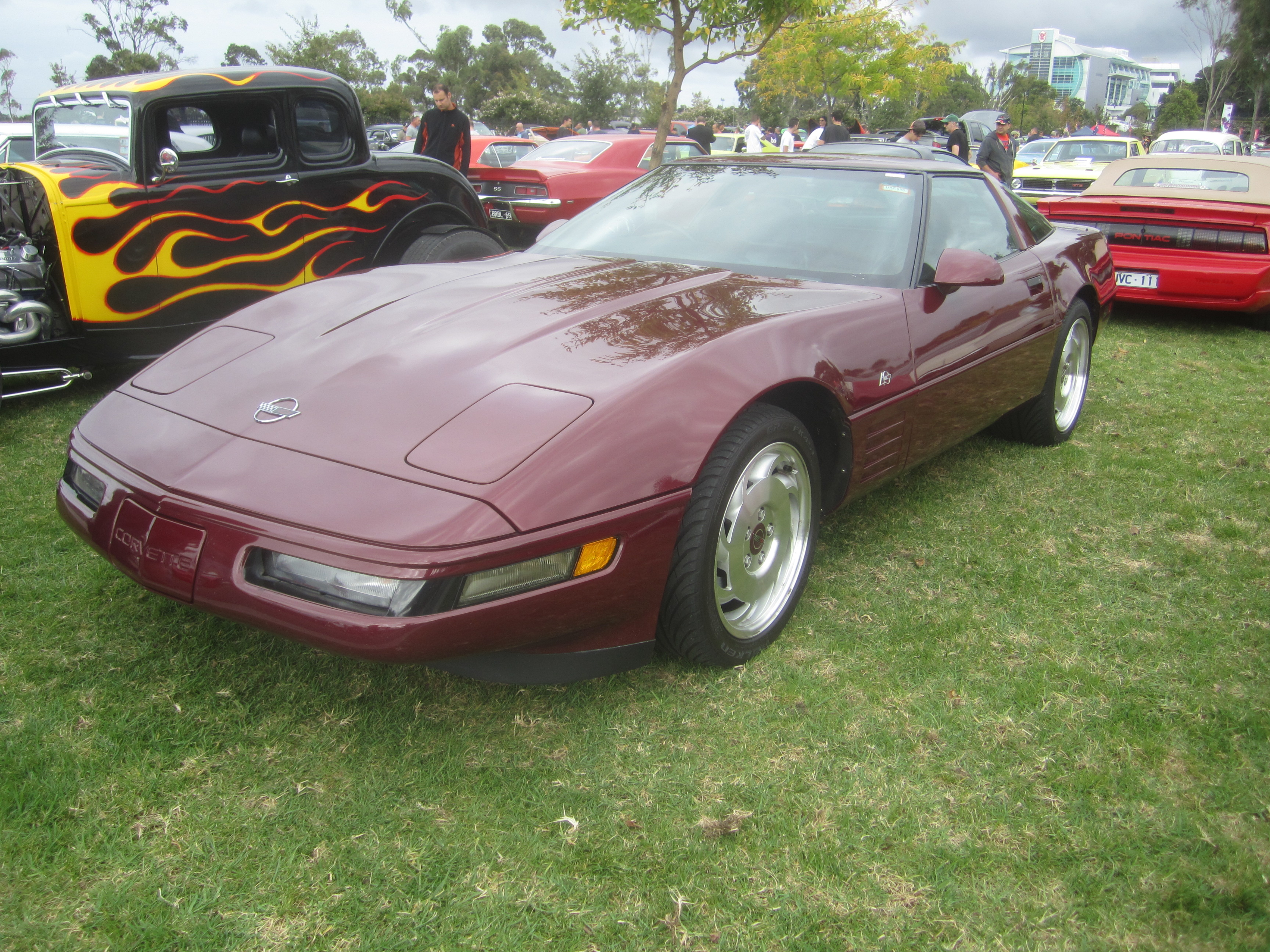 The C4 Corvette was made from 1984 to 1996. a more sleek modern looking car with a new glass hatchback. Available in Coupe or Convertible. In 1993, the 40th Anniversary package was available on all models. It included Ruby Red metallic paint and Ruby Red leather sport seats. 6749 were made. Engines; 300hp LT-1 or 405 hp ZR-1 LT-5